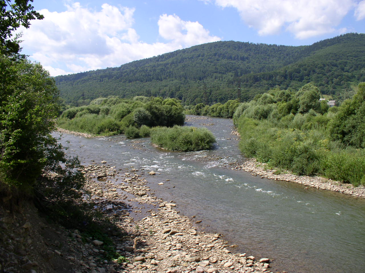 Opir River, Ukraine.